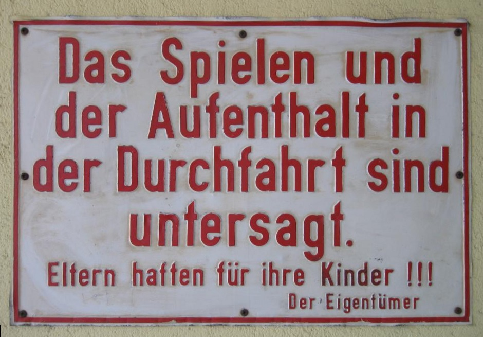 Playing forbidden sign in Western Germany